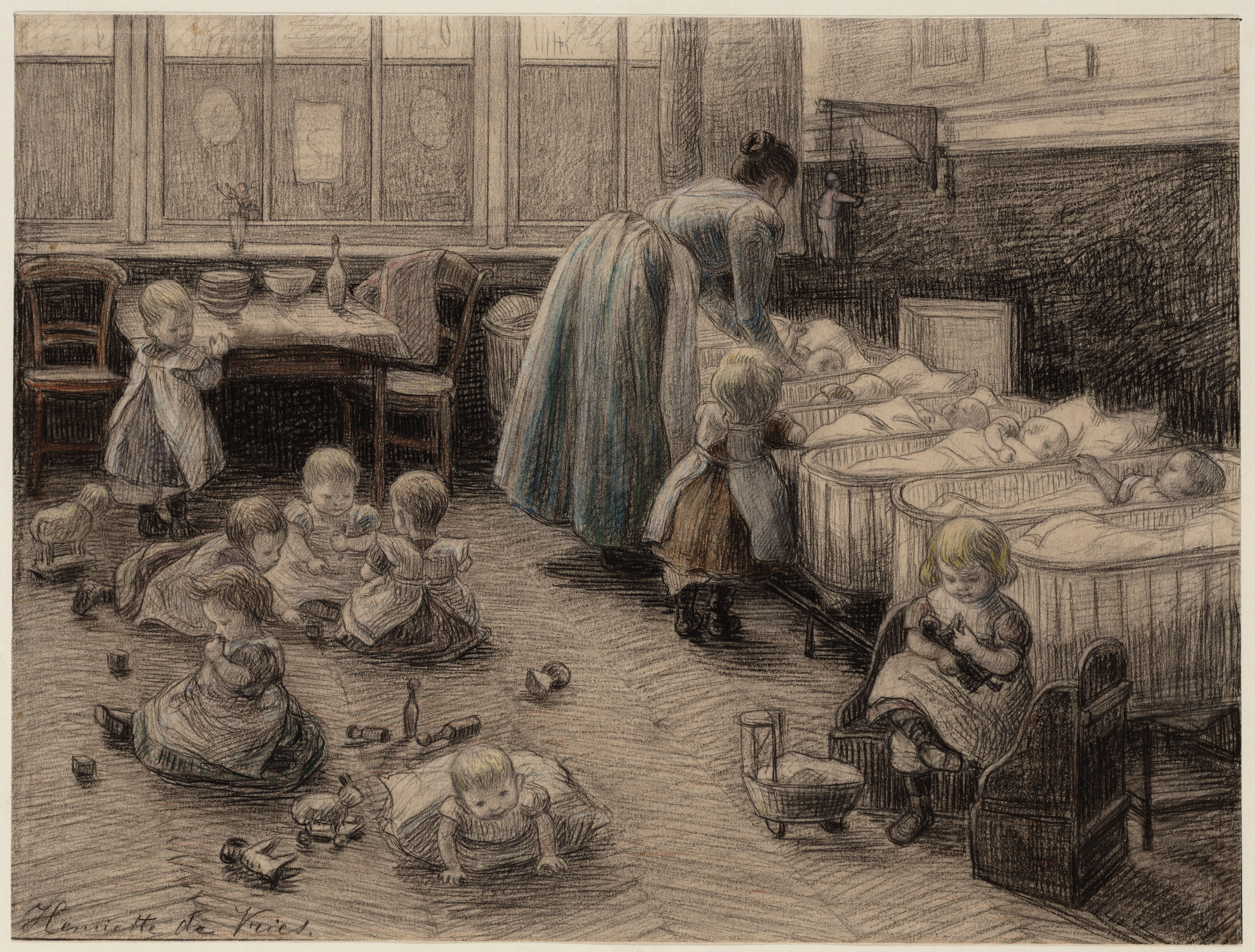 A pastel drawing of an early day care